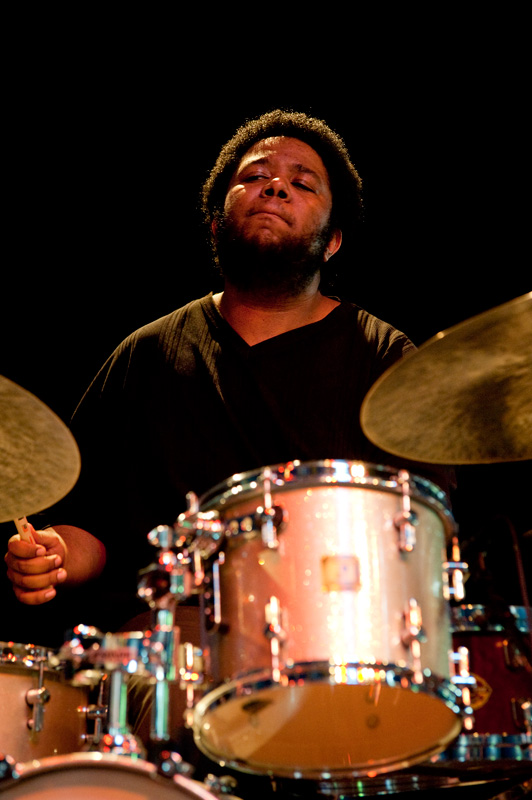 Tyshawn Sorey at moers festival 2010